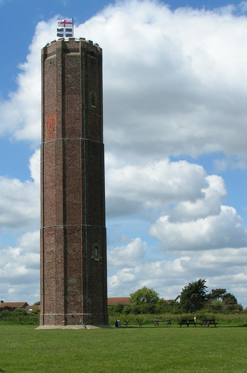 Naze Tower. Photo by sannse, Walton-on-the-Naze, Essex, 19 June 2004 The Naze Tower is in danger of crumbling due to erosion